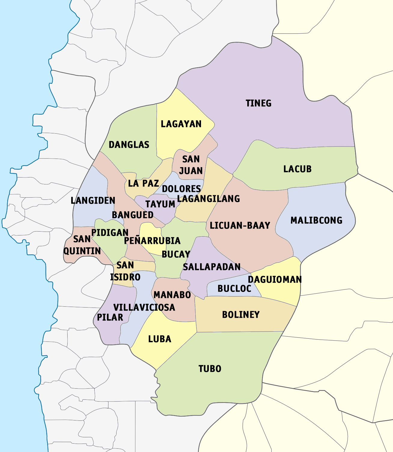 Political map of Abra, Philippines